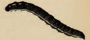 Stainton’s Natural History of the Tineina (1855–1873): Athrips mouffetella